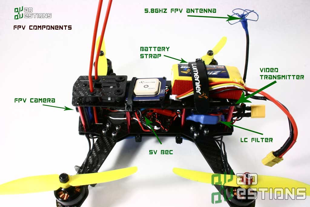 une photo descriptif d'un quad racing